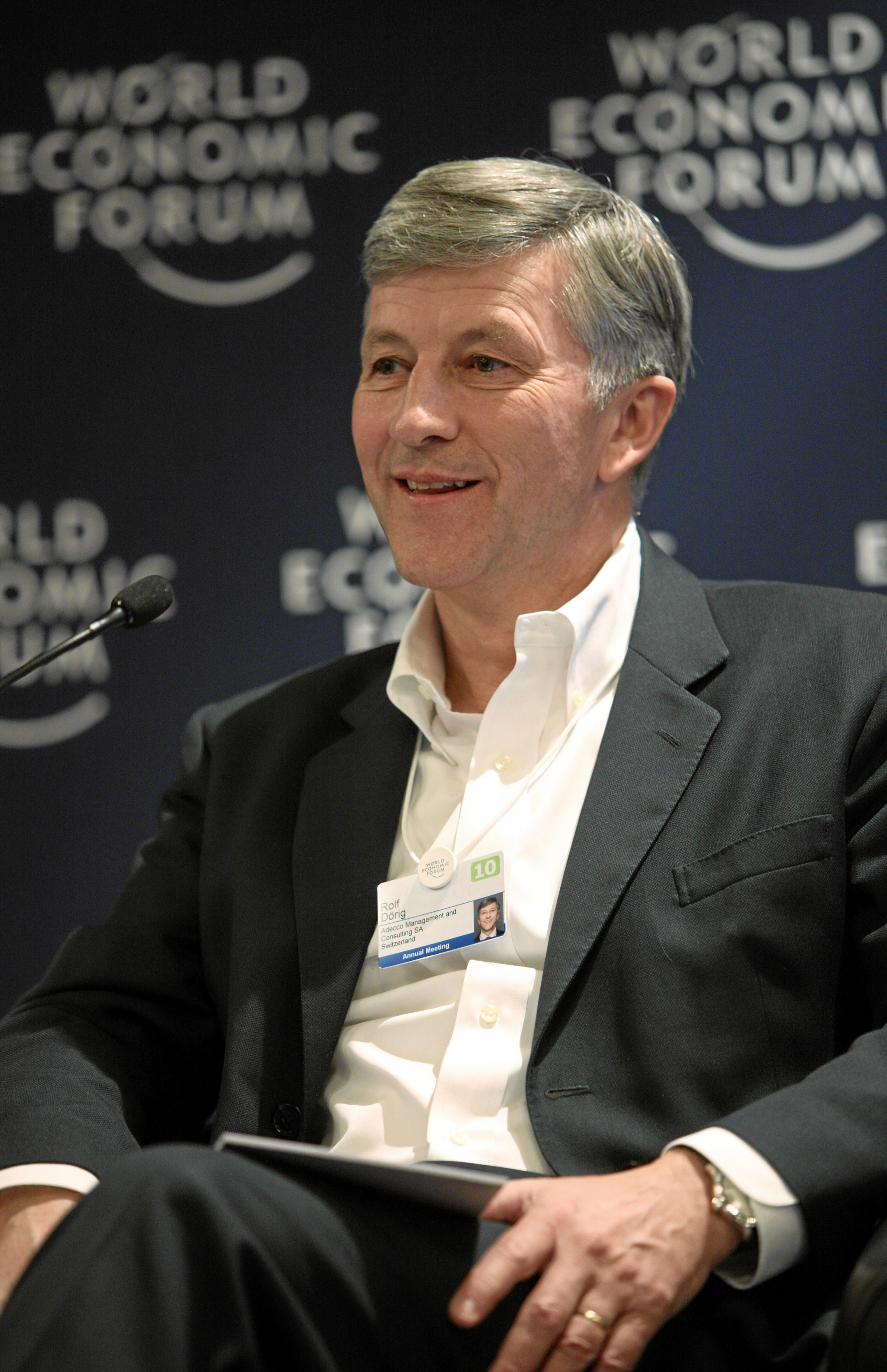 Rolf Doerig (Dörig), Chairman, Adecco Group, Adecco Management and Consulting, Switzerland, is captured during the session 'Creating Jobs and Strengthening Social Welfare’ in the Congress Centre of the Annual Meeting 2010 of the World Economic Forum in Davos, Switzerland, January 29, 2010. Copyright by World Economic Forum. by Remy Steinegger